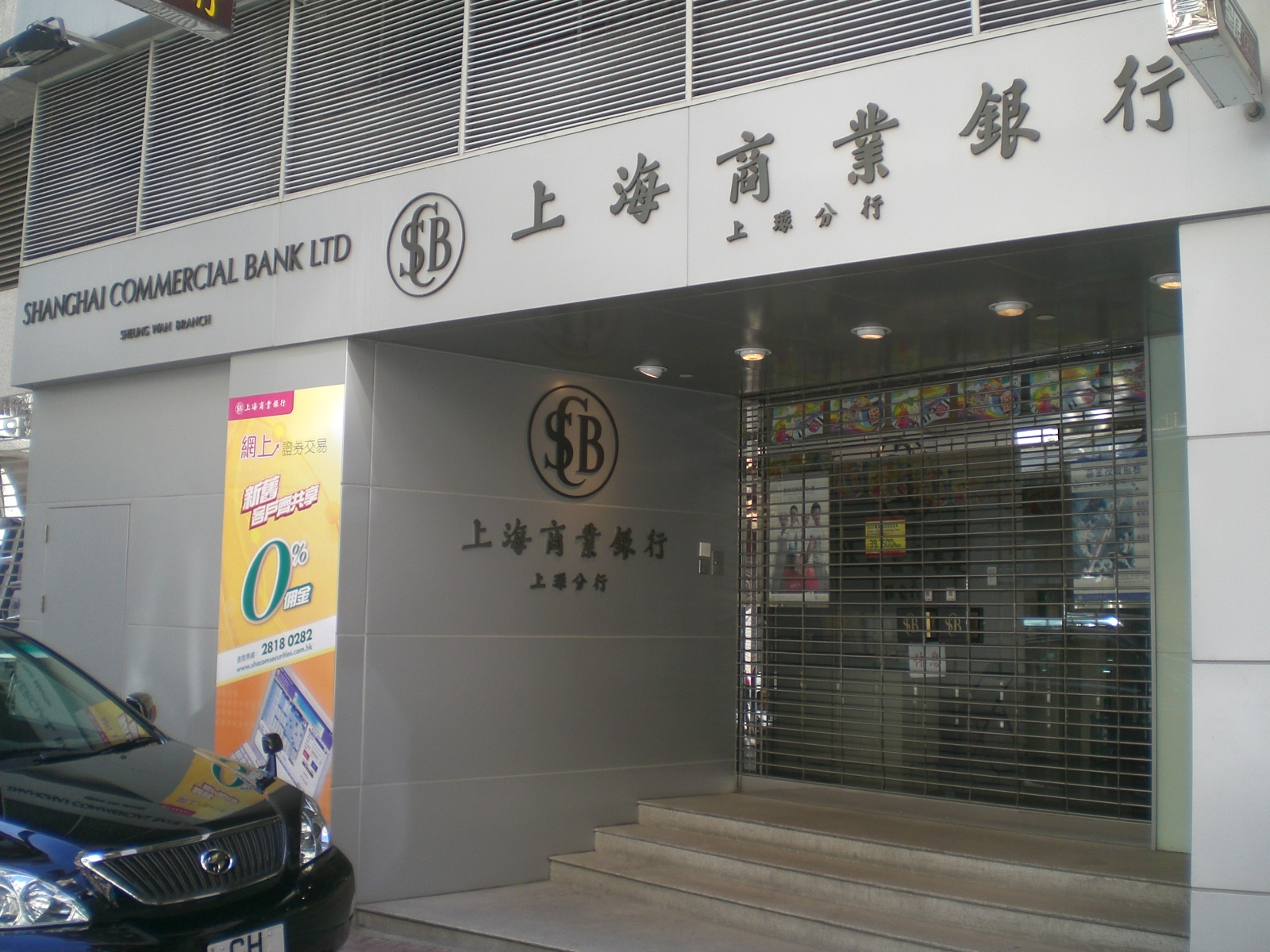 位於上環蘇杭街的上海商業銀行分行自動櫃員機